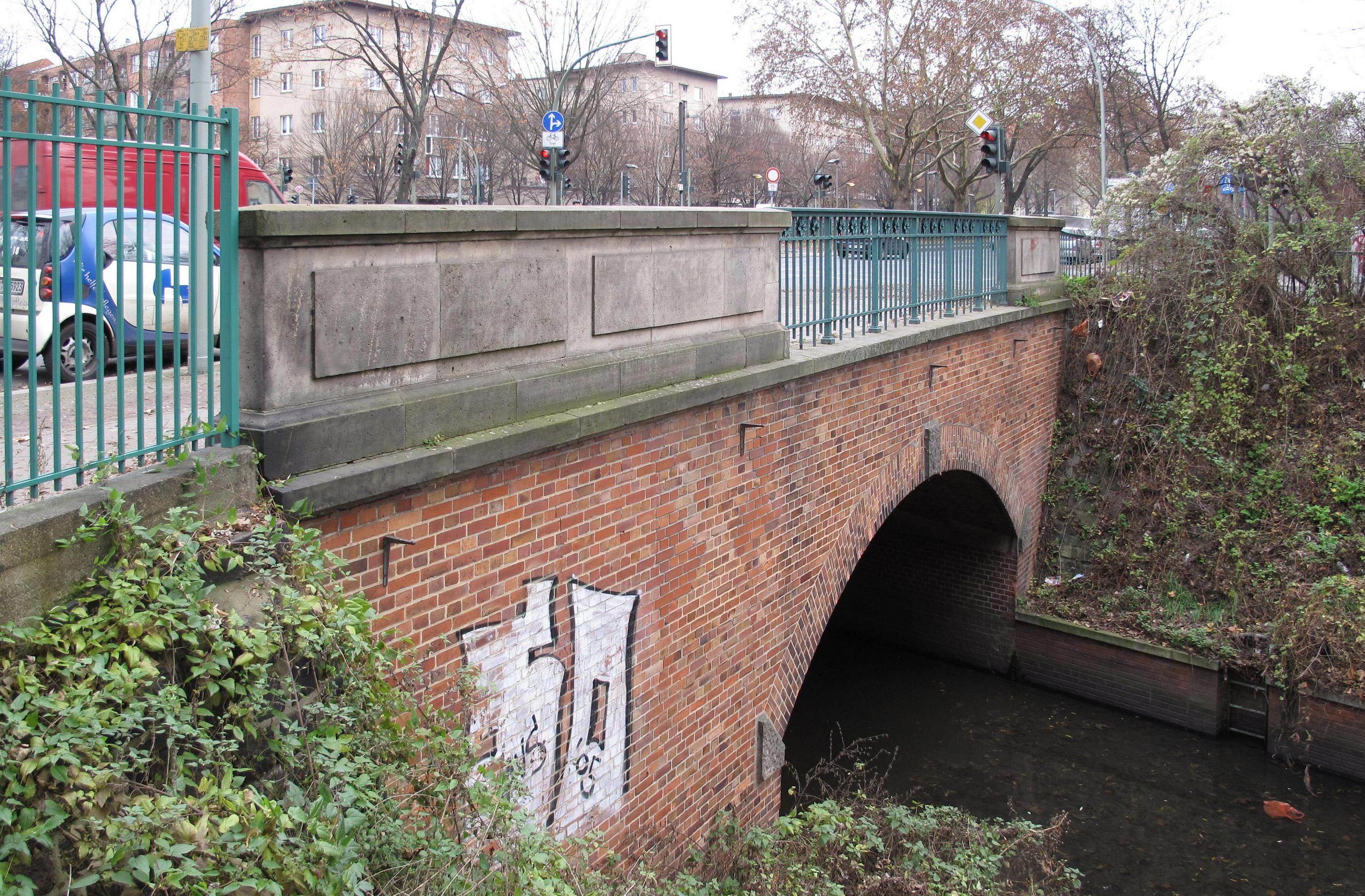 The Osloer-Straßen-Brücke is a street bridge of the Osloer Straße crossing the Panke in Berlin-Gesundbrunnen. The stone arch bridge was built between 1906 and 1908. Its named after Norways capital Oslo.